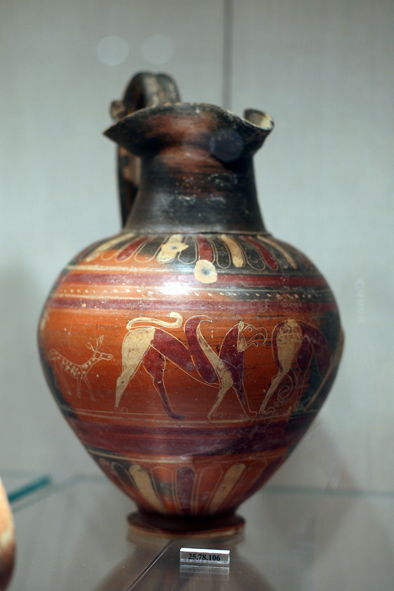 Trefoil mouthed oinochoe. Row of real and imaginary animals. Tongues on the shoulder and above the foot.